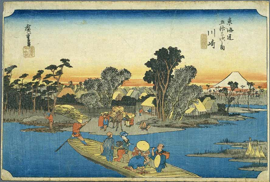 Kawasaki on the Tokaido, ukiyo-e prints by Hiroshige